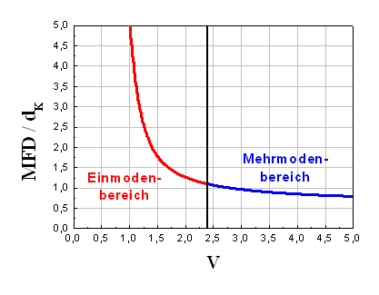 Approximation of the mode field diameter normalized by the core diameter of a optical single mode fiber (step index) as a function of the V parameter. According to D.Marcuse: "Loss Analysis of Single-Mode Fiber Splices." The Bell System Technical Journal 1977.